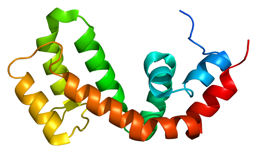 Structure of the RGS9 protein. Based on PyMOL rendering of PDB 1fqi.